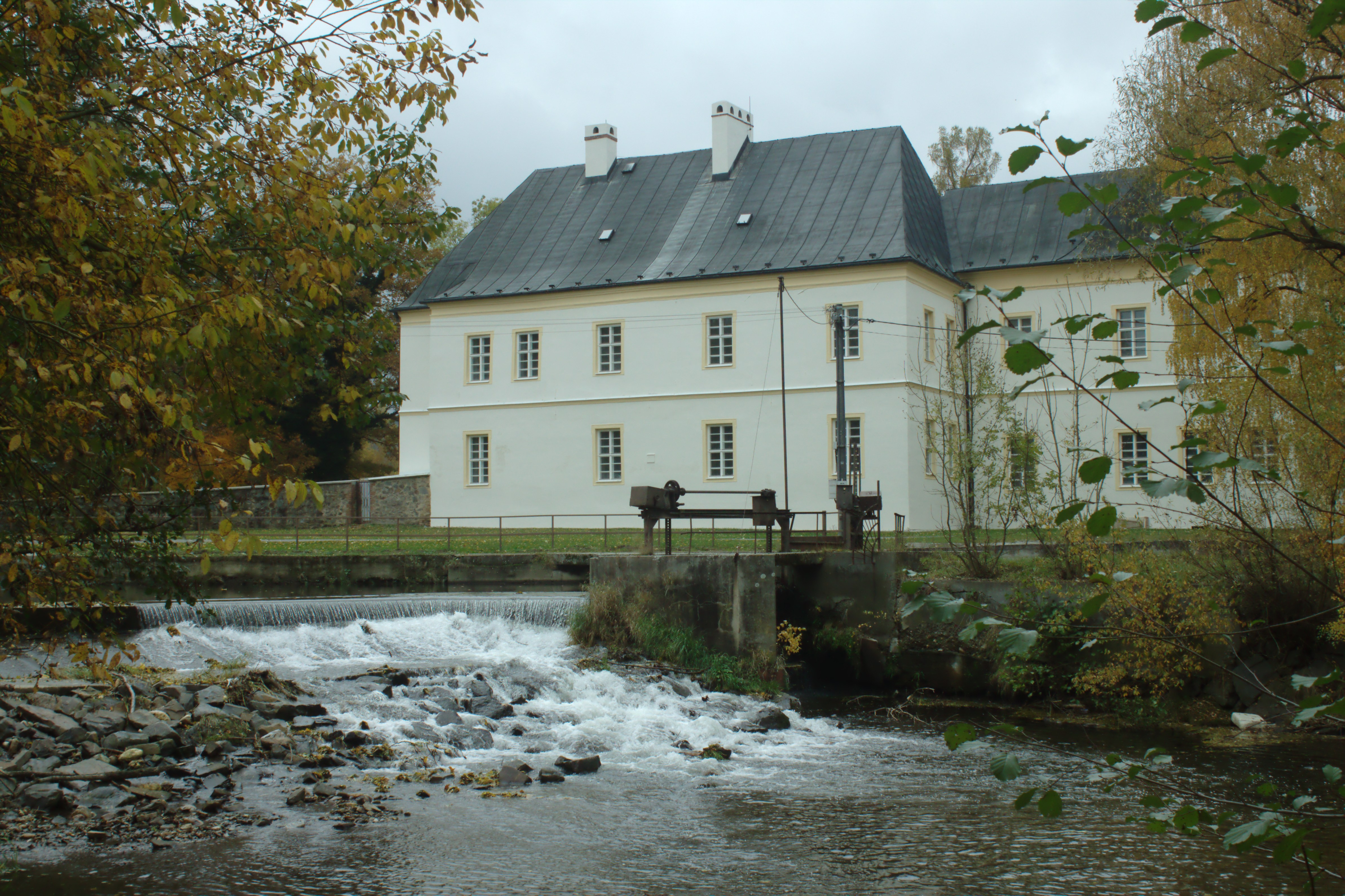 Brantice Castle with Opava River, Moravian-Silesian Region, CZ